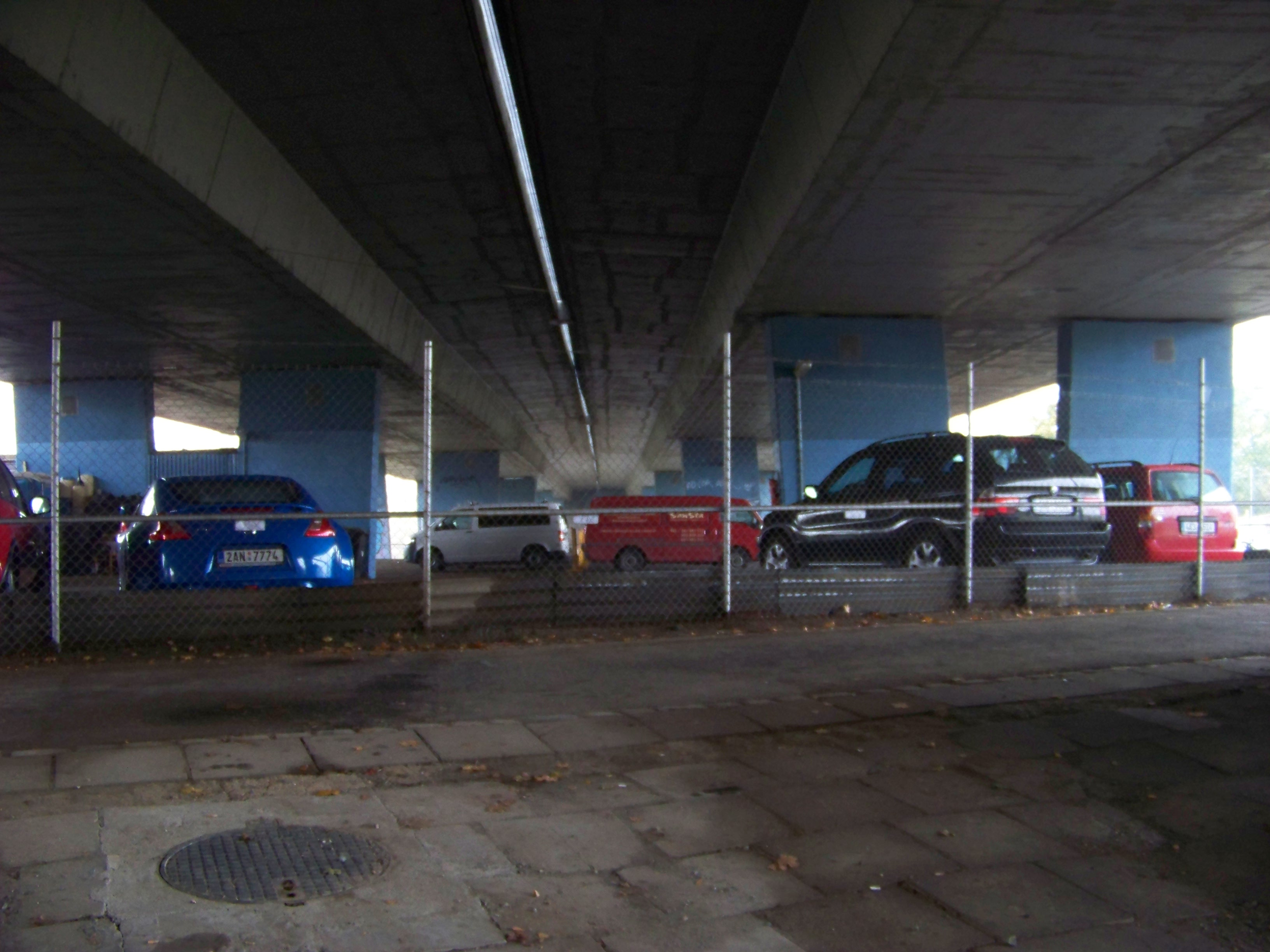 Michelská street, a bridge of 5. května street, Michle, Prague, Czech Republic.